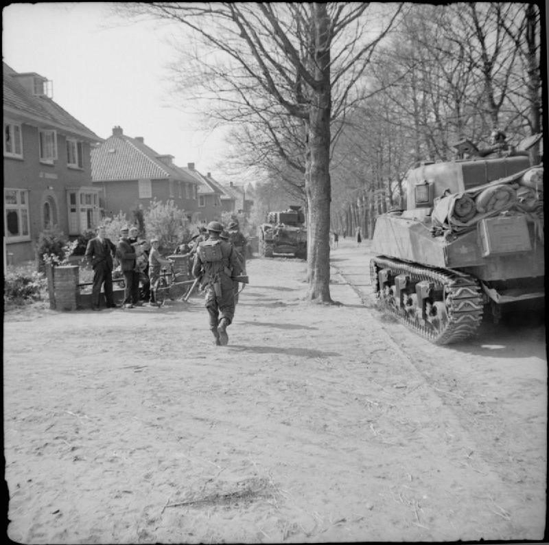 The British Army in North-west Europe 1944-45 Sherman tanks of the 5th Canadian Armoured Division and infantry of the 11th Royal Scots Fusiliers, 49th (West Riding) Division, advance through the outskirts of Ede in Holland, 17 April 1945.